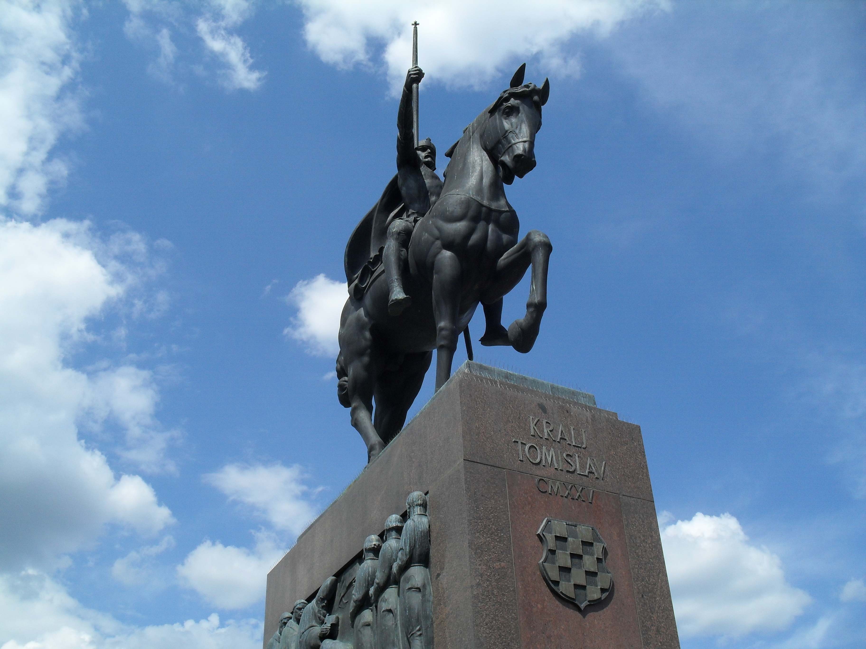 The statue of Croatian King Thomas (Tomislav) in Zagreb near the Glavni kolodvor